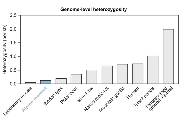 The heterozygosity for a panel of mammalian genomes has been determined by remapping the original sequence reads used to assemble their reference genomes, using identical software parameters, so that heterozygosity values are directly comparable. The inbred laboratory mouse and the Alpine Marmot come out lowest [1]